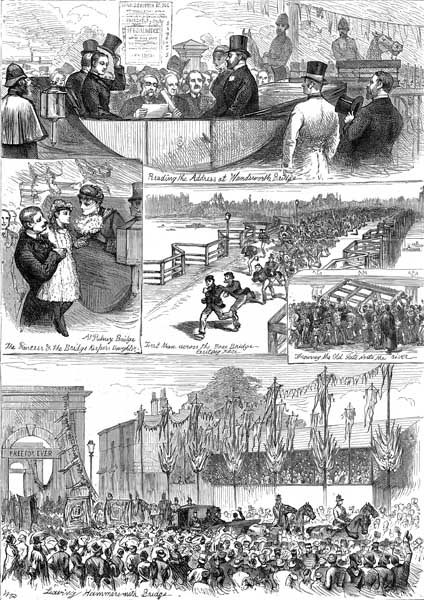 Opening ceremonies for Wandsworth, Putney and Hammersmith Bridges, London